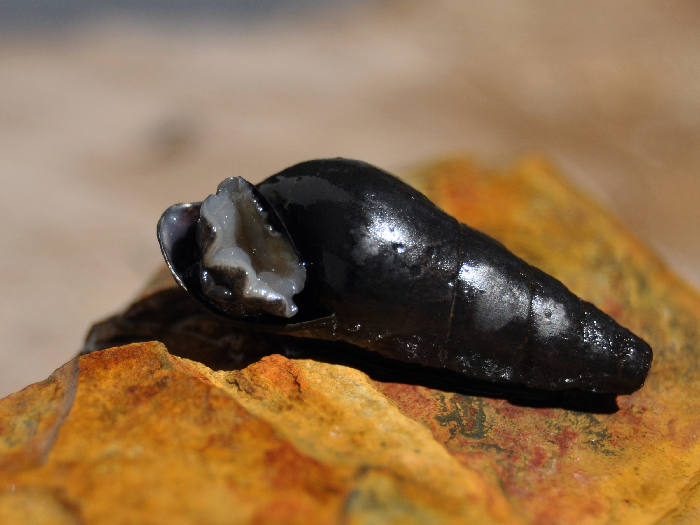 Sulcospira testudinaria, ca. 30 mm height w/ truncated apex. From Cihideung River, Bogor, West Java, Indonesia.